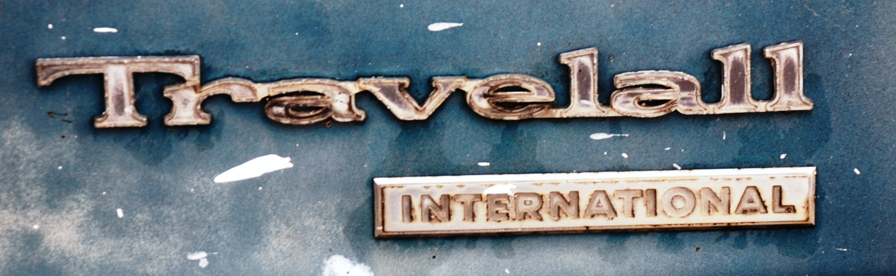 Badge of International Harvester Travelall